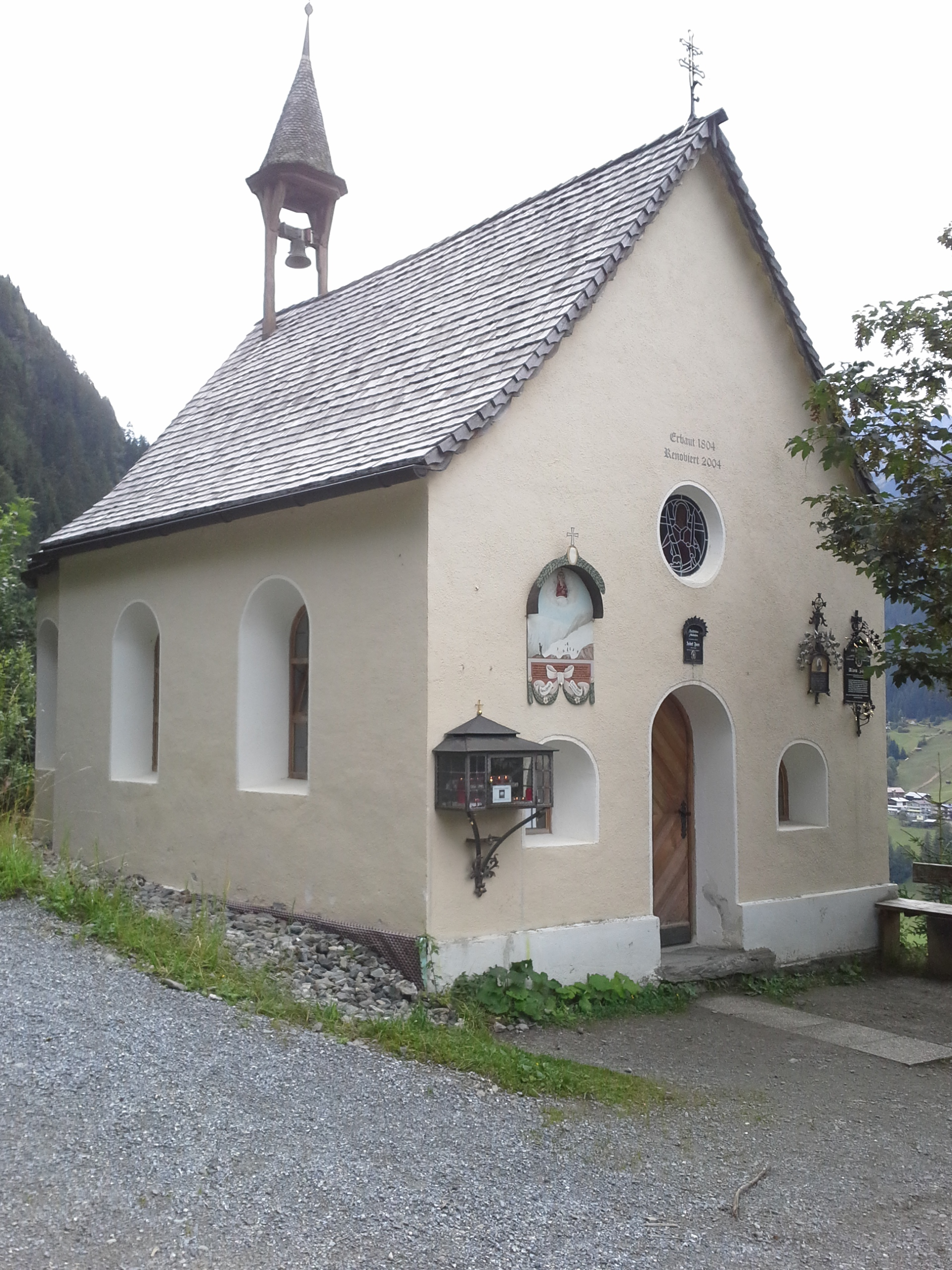 Rotwegkapelle Kappl Austria